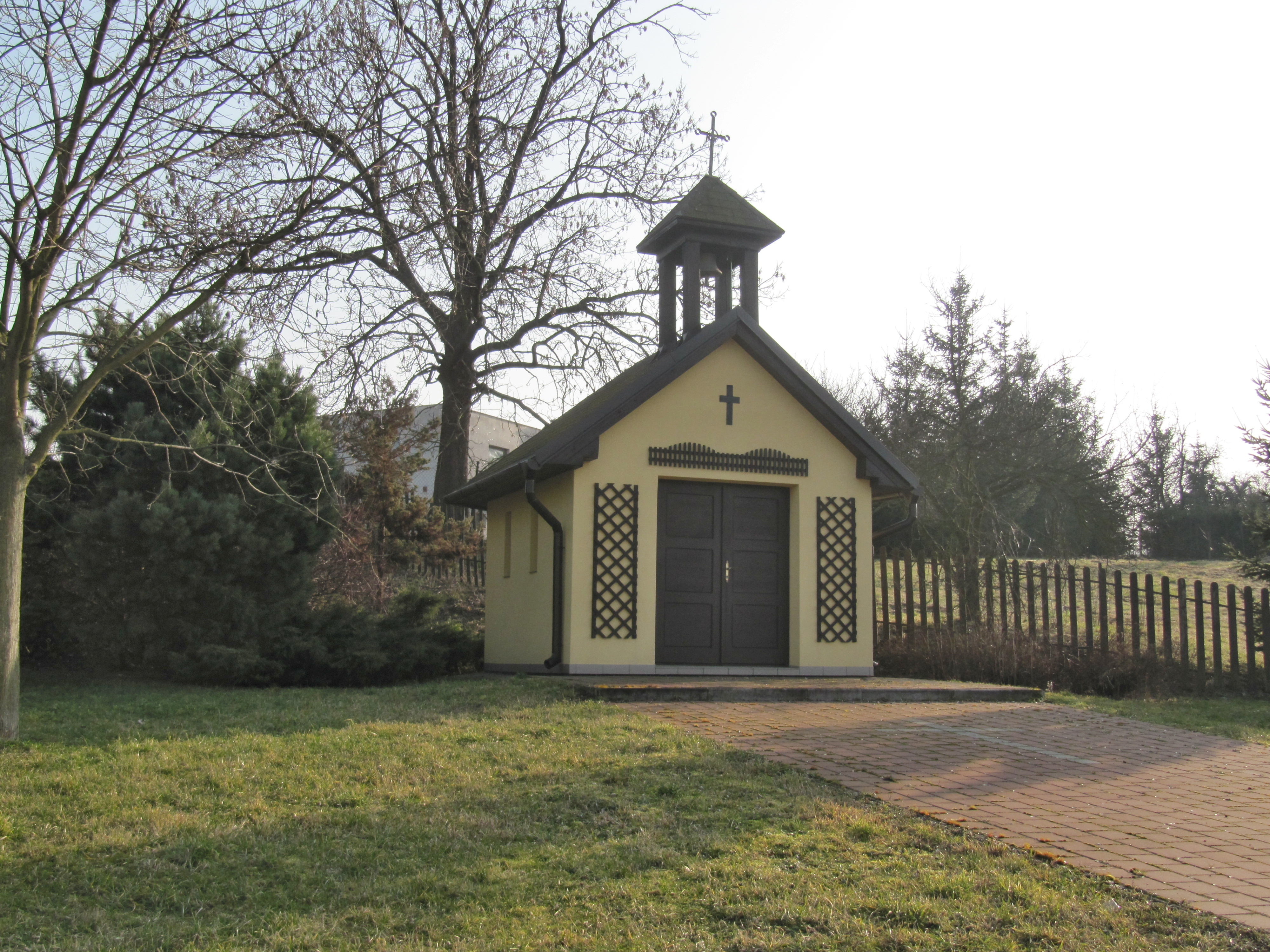 Kroměříž, Czech Republic, part Postoupky. Chapel Miňůvky.